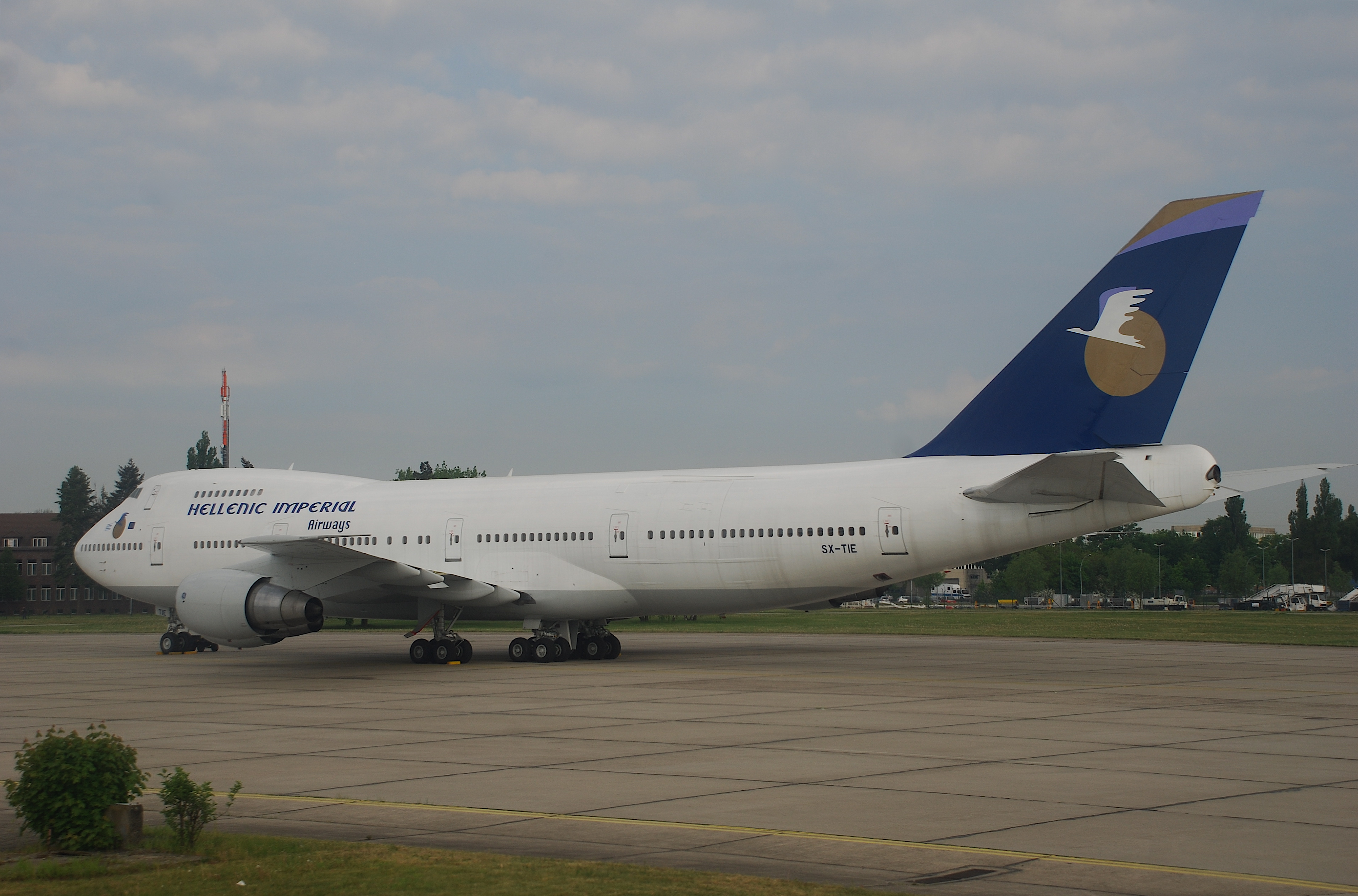 This Boeing 747-230B took its first flight on November 12, 1986...(c/n 23509/ 663) 16/01/1987 Lufthansa D-ABZE stored at Marana 17/05/03 20/07/2003 Pullmantur Air D-ABZE 25/01/2004 Pullmantur Air EC-IUA stored at marana 2005 01/12/2005 Air Universal 5T-AUE stored 09/2006 01/12/2006 Hellenic Imperial Airways SX-DIE 29/04/2008 Hellenic Imperial Airways SX-TIE stored at ATH 11/2008 due to temp AOC lost - back in service 05/2009 , stored 10/2011 Taken out af an EasyJet A319 on the way to Basle...